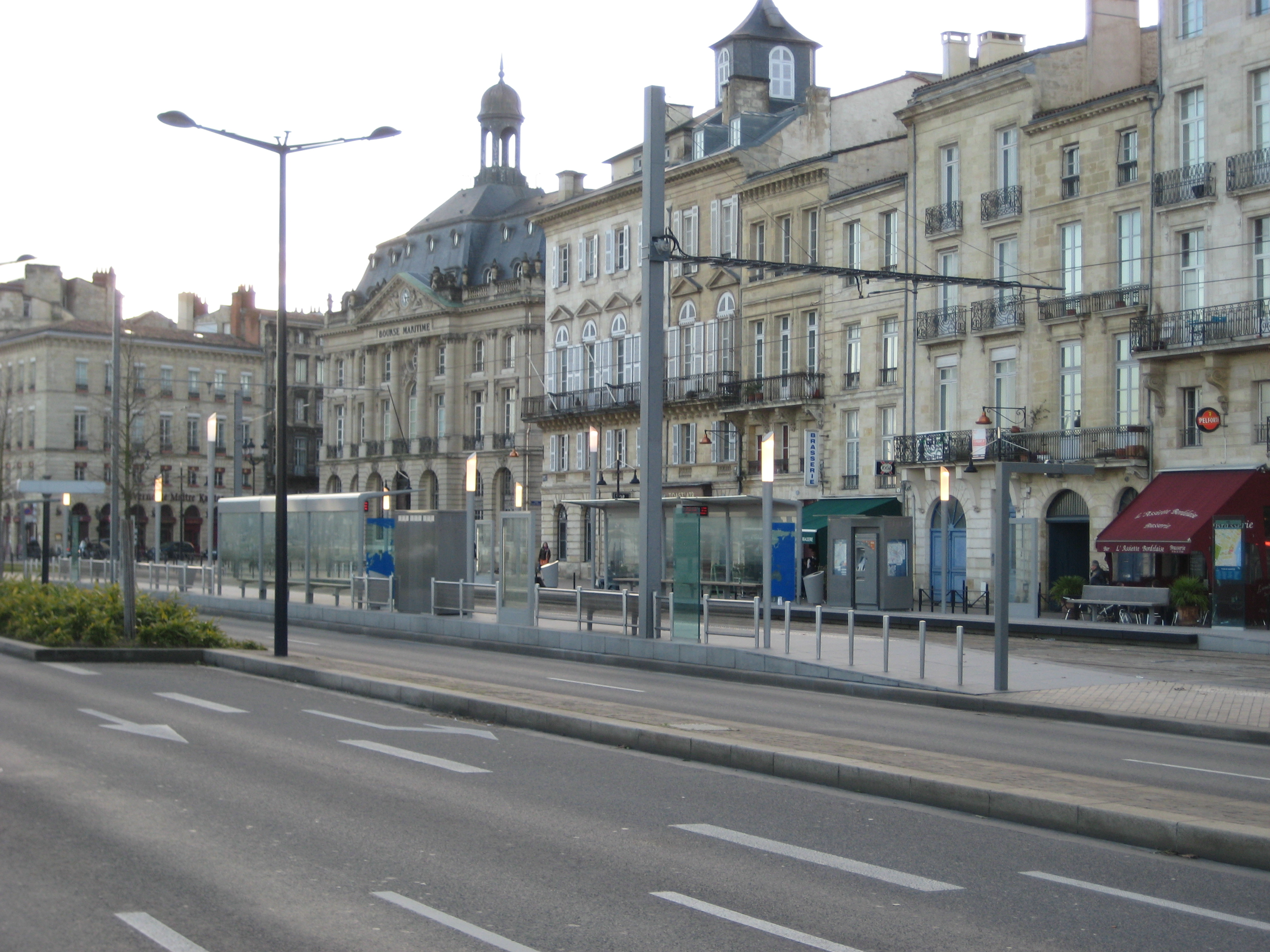 Station CAPCTramway de Bordeaux)